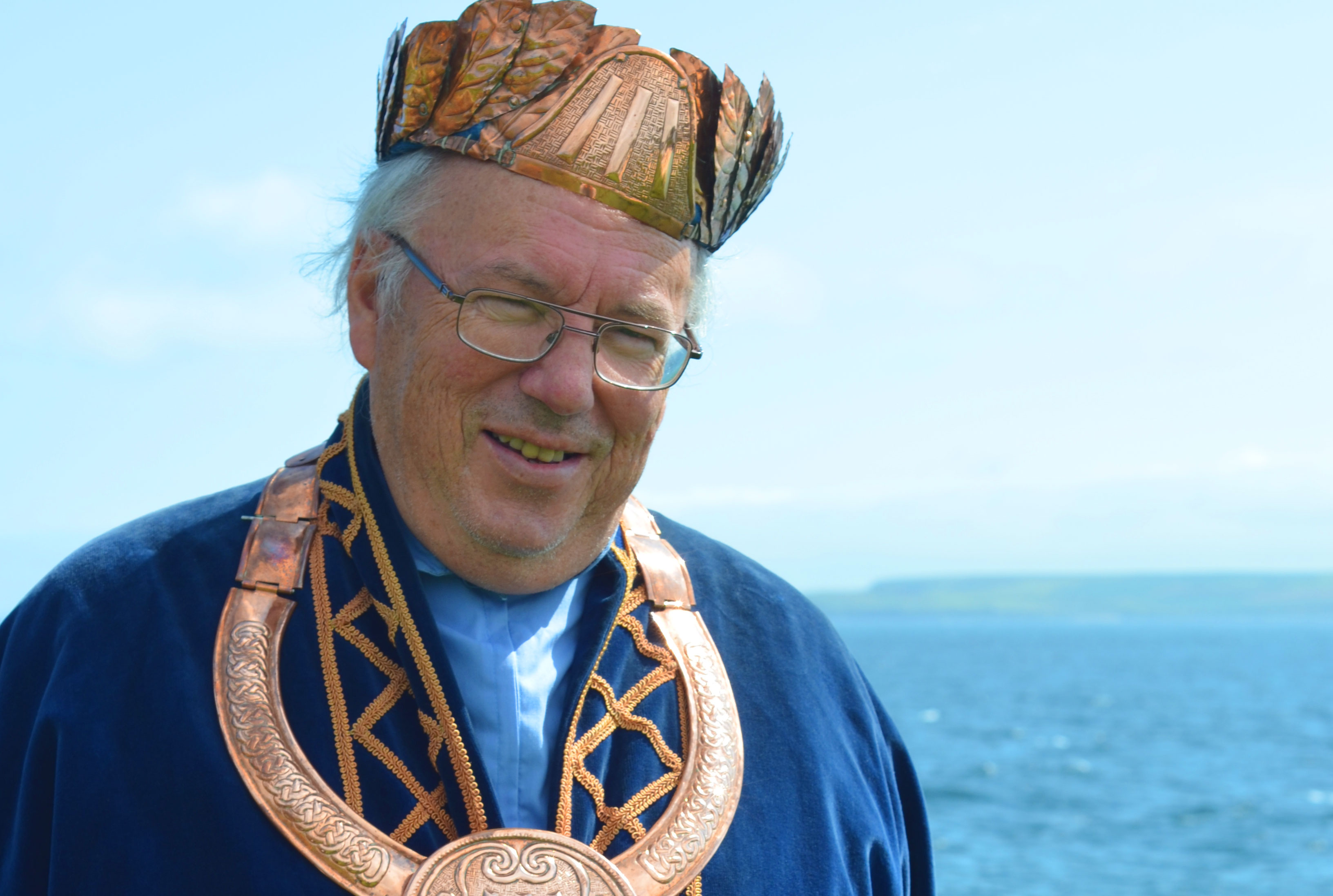 Mick Paynter - Grand Bard of Cornwall Kernowek: Skogynn Pry - Bardh Meur Gorsedh Kernow